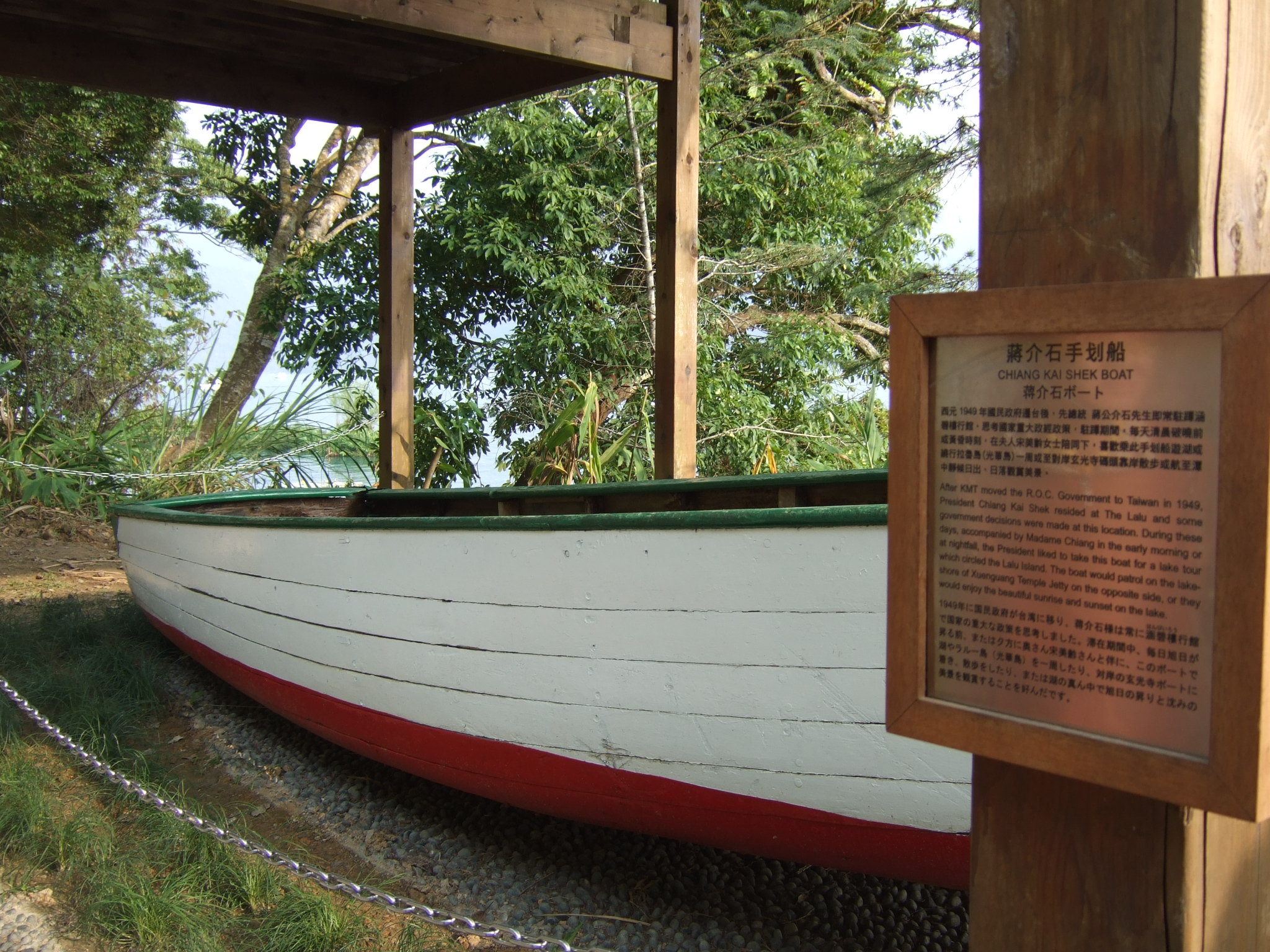 Chiang Kai-shek's rowboat at Sun Moon Lake. 中文（台灣）: 蔣中正在日月潭的手划船。Bân-lâm-gú: Tsiunn Tiong-tsìng tsāi Ji̍t-gua̍t-thâm ê tshiú-kò-tsûn. 蔣中正在日月潭的手划船。